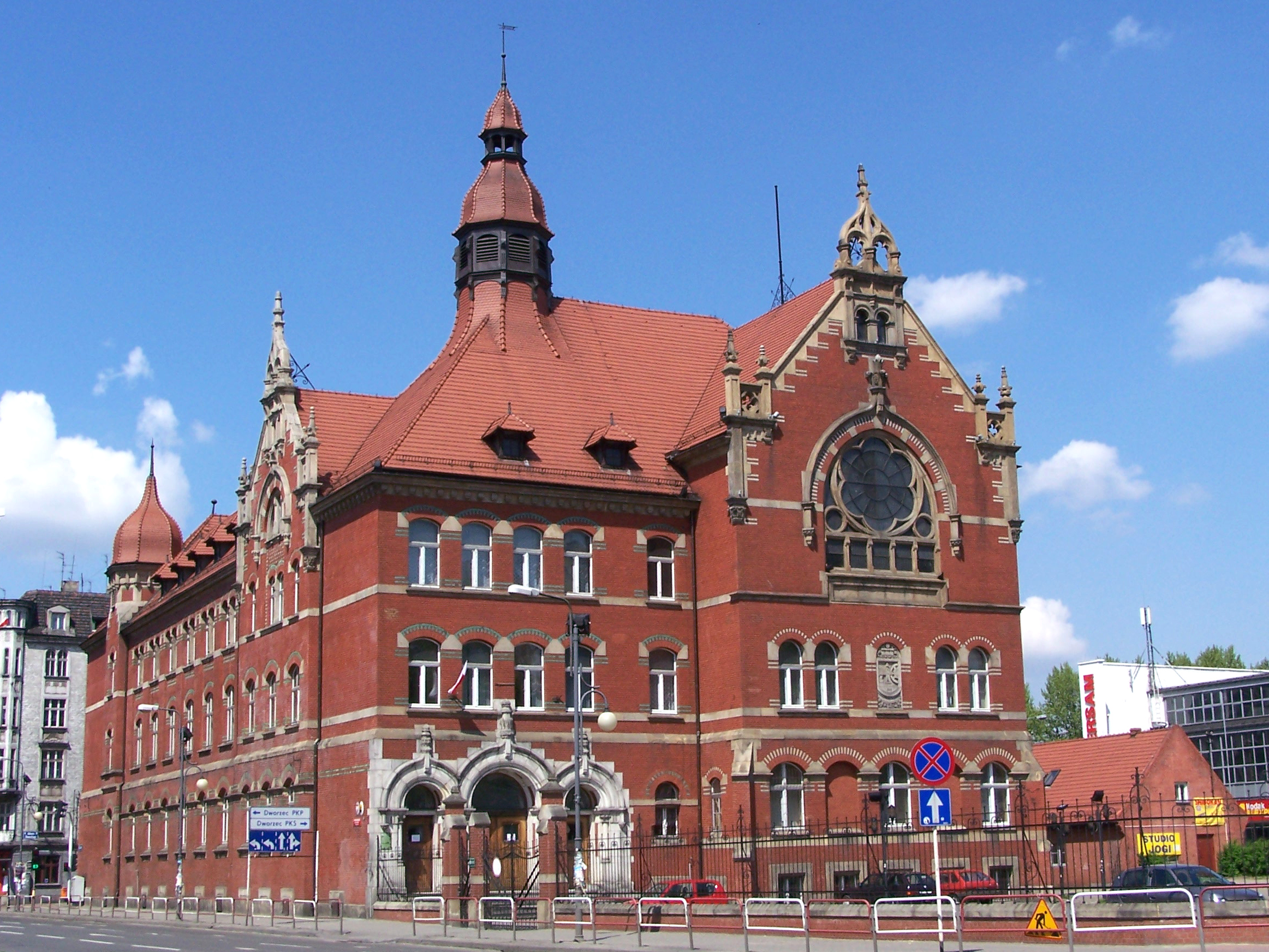 The Gymnasium in Katowice is since his erection a school at Mickiewicza Street and was built to 1900 in the stile of Neorenaissance with elements of Neogothic.